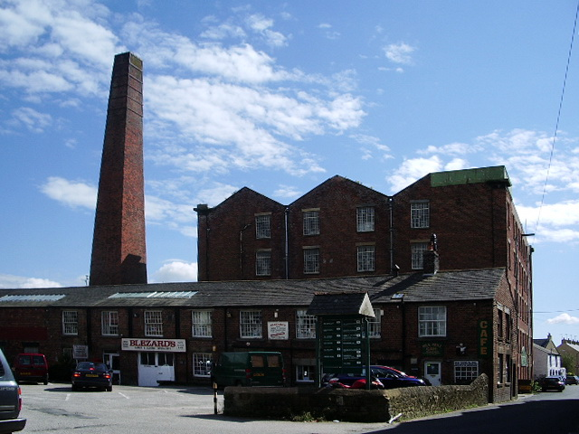 Galgate Silk Mill Galgate Silk Mill, was the oldest surviving silk spinning mill in England and was built in 1792, until its closure in 1971. It is now used for retail, business and manufacturing.